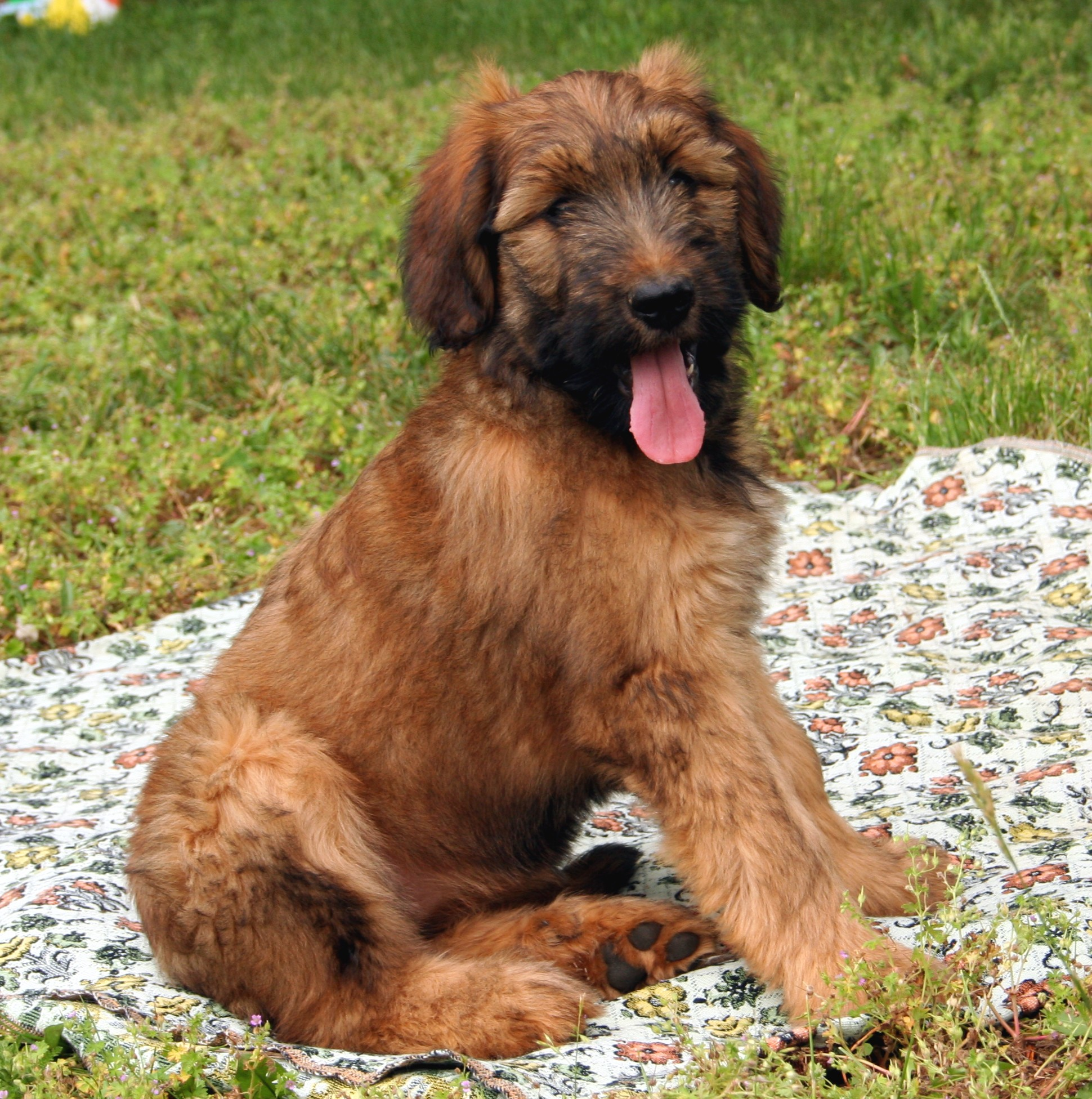 Briard - puppy during dog's show in Racibórz, Poland